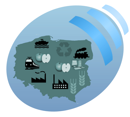 N icon for Wikinews.